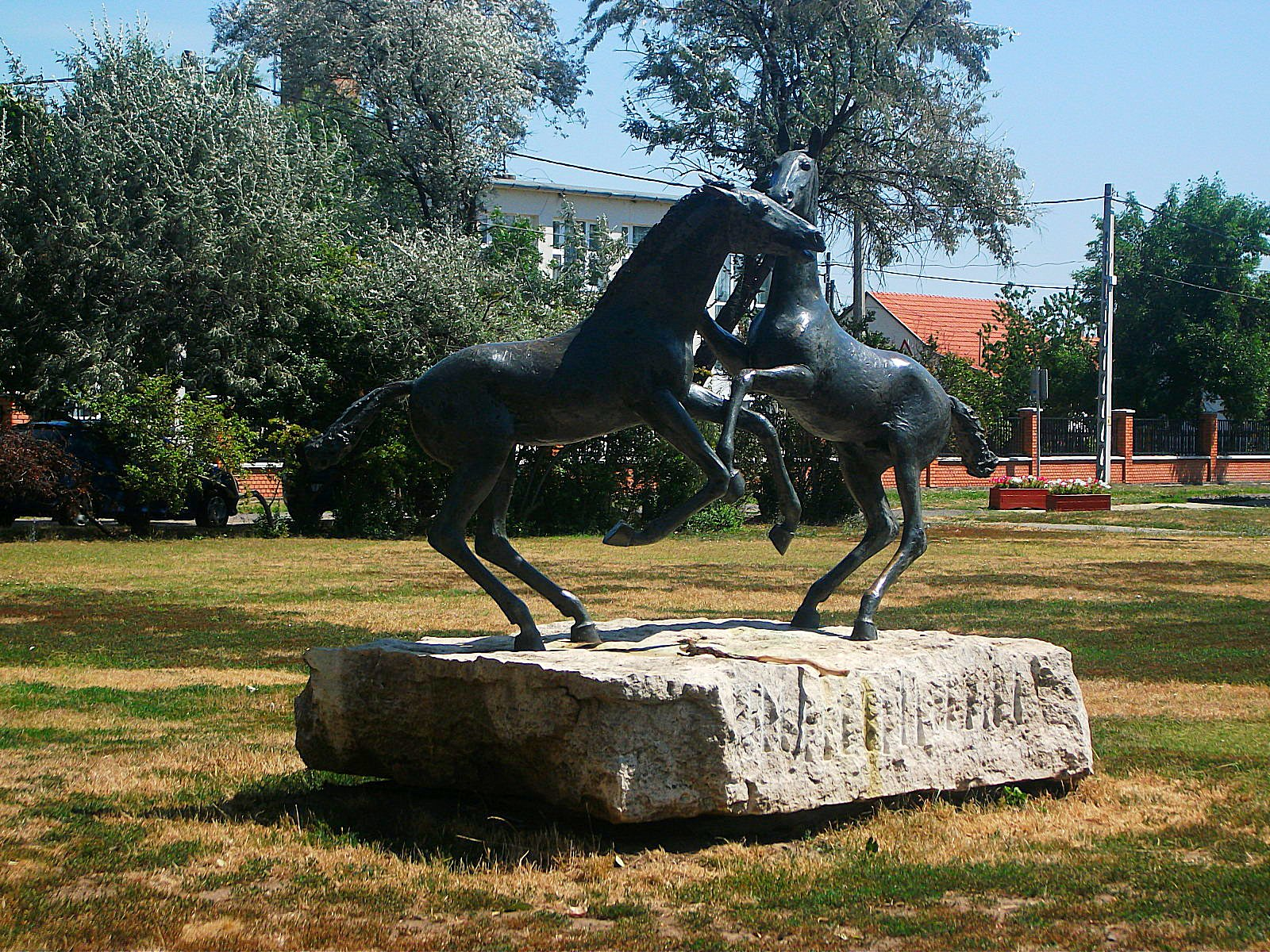 Playing colts statue, Hortobágy, Hungary